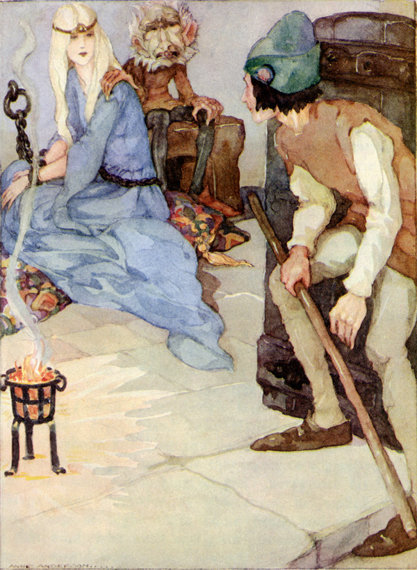 "Strong Hans" by Anne Anderson. The dwarf grinned at Hans like a sea-cat...